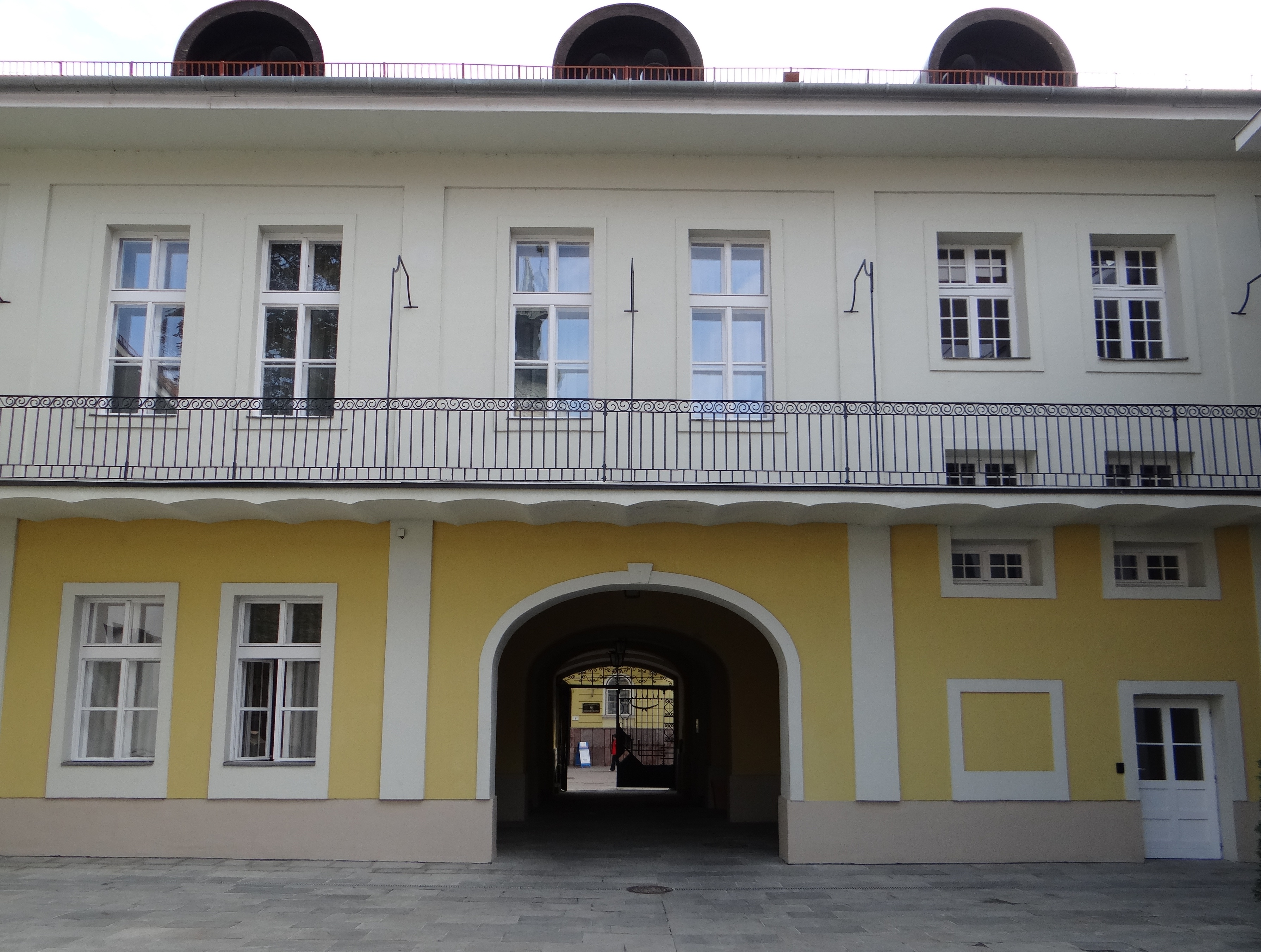 City Hall, 8 Városház Square, Miskolc, Hungary